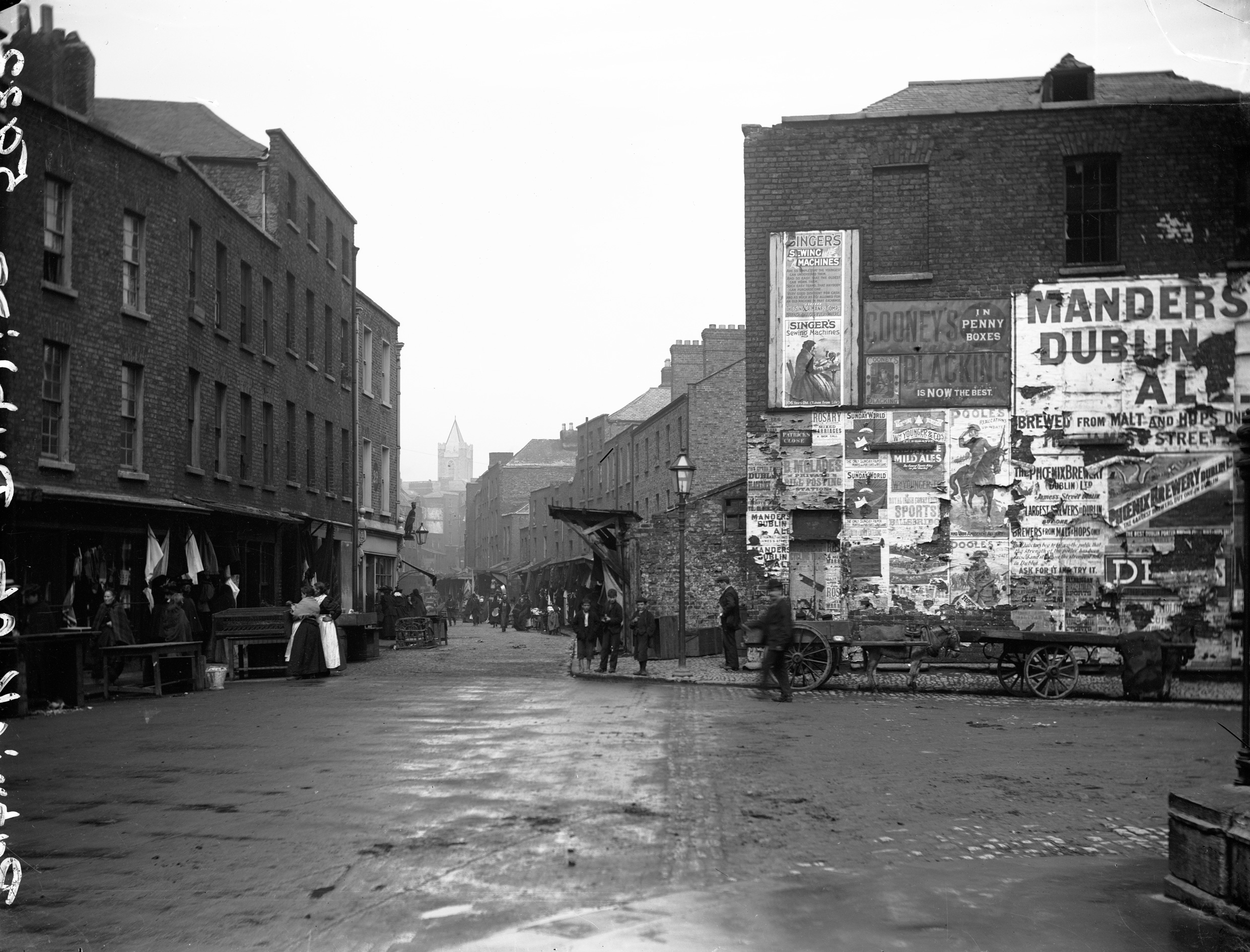 A murky day on Patrick Street in the Liberties of Dublin. That's the tower of Christ Church Cathedral in the distance. With regard to that fantastic wall of posters, see the next photo uploaded... Date: Circa 1898 NLI Ref.: LROY 5933